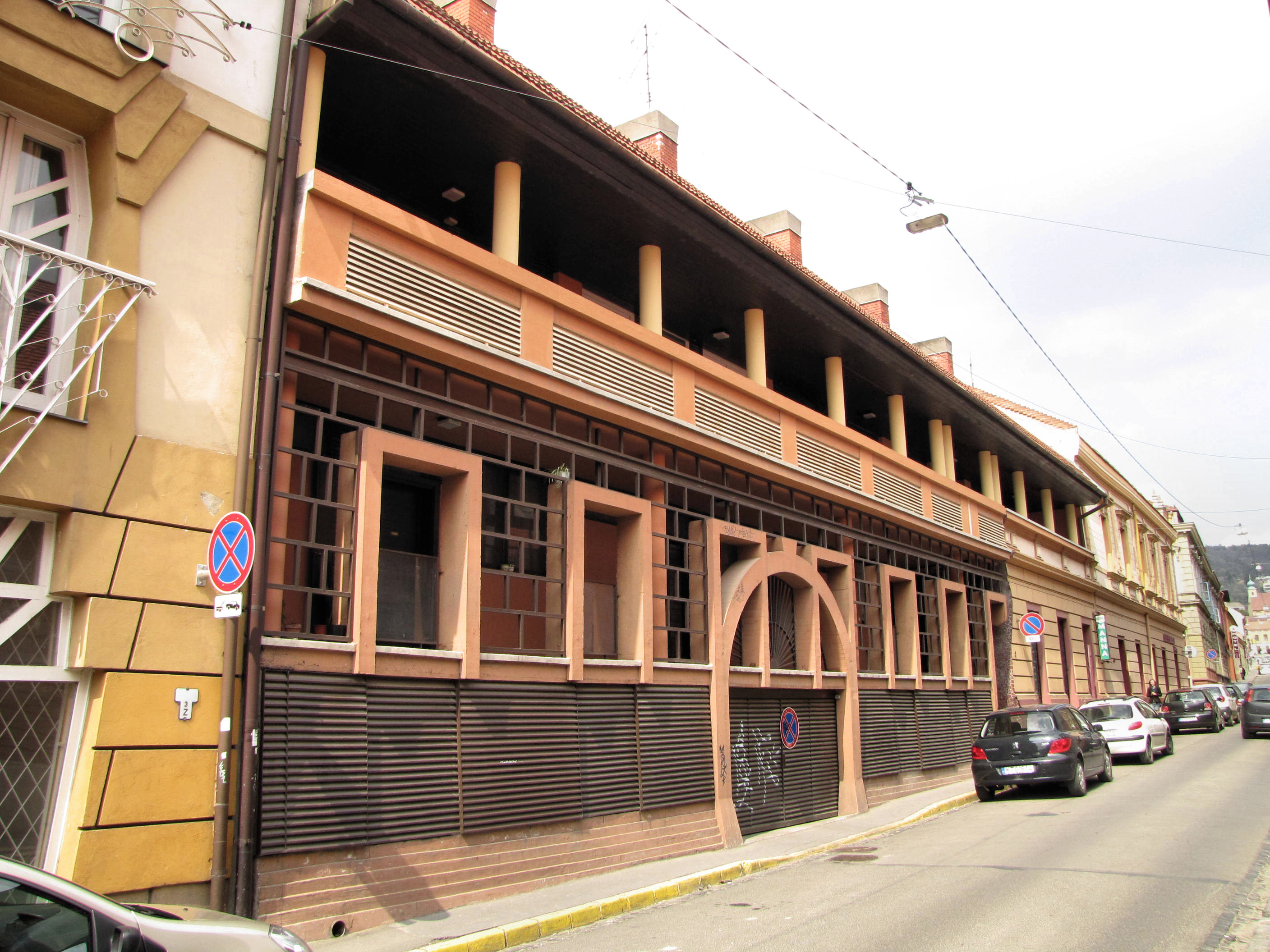 "Lightning-stricken House", Pécs. Architect: Sándor Dévényi, 1978-85.